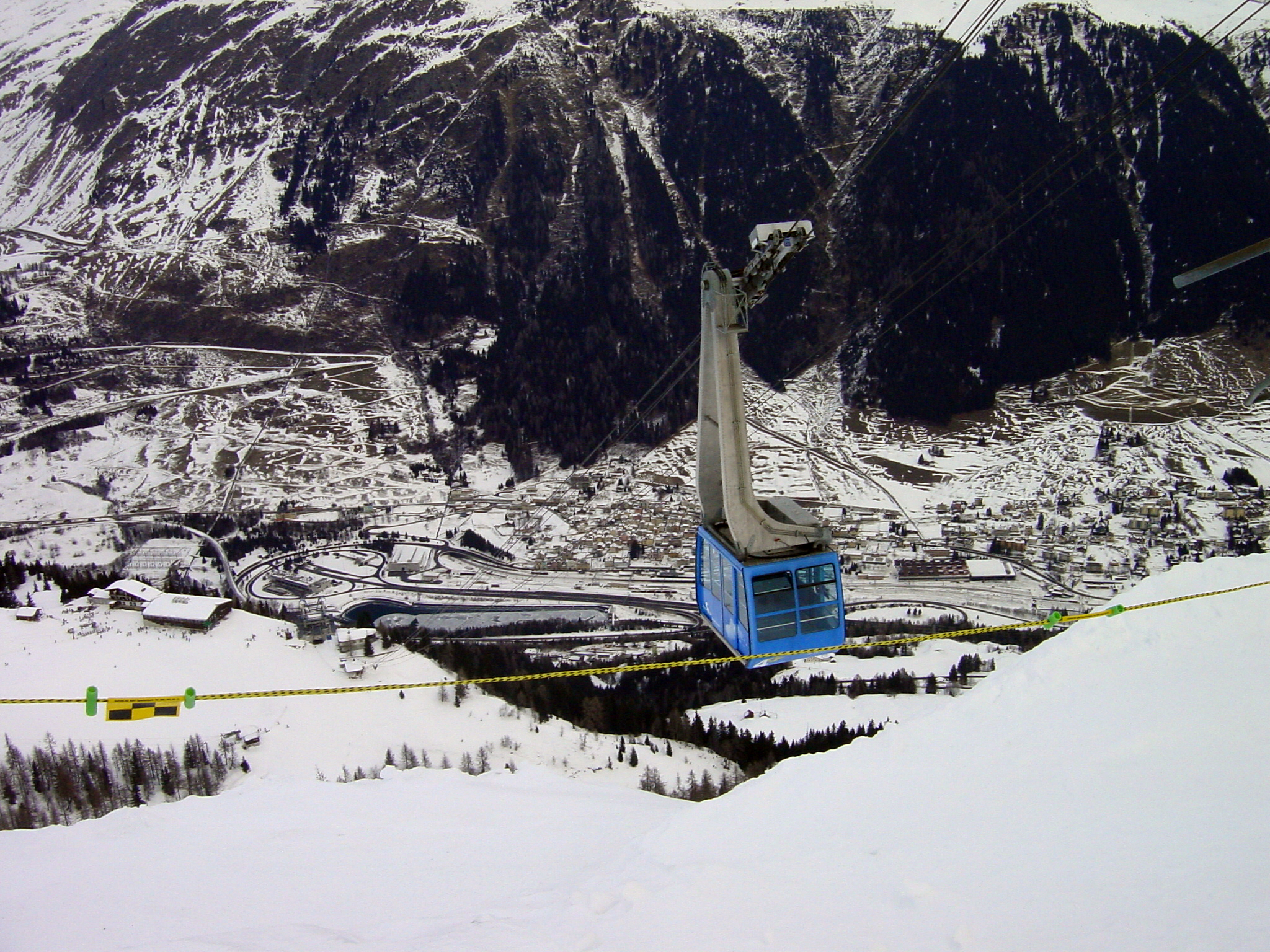 Airolo, Ticino, Switzerland